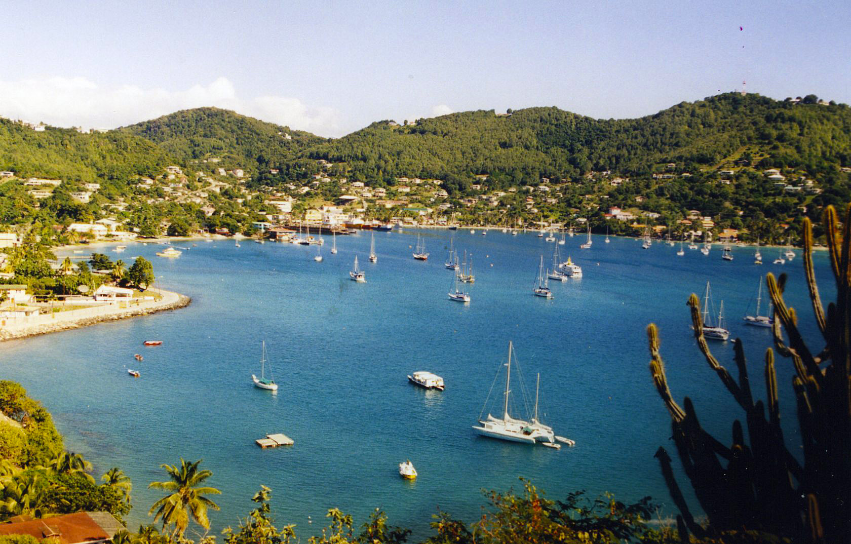 Admiralty Bay, Port Elizabeth, Bequia, St Vincent and the Grenadines